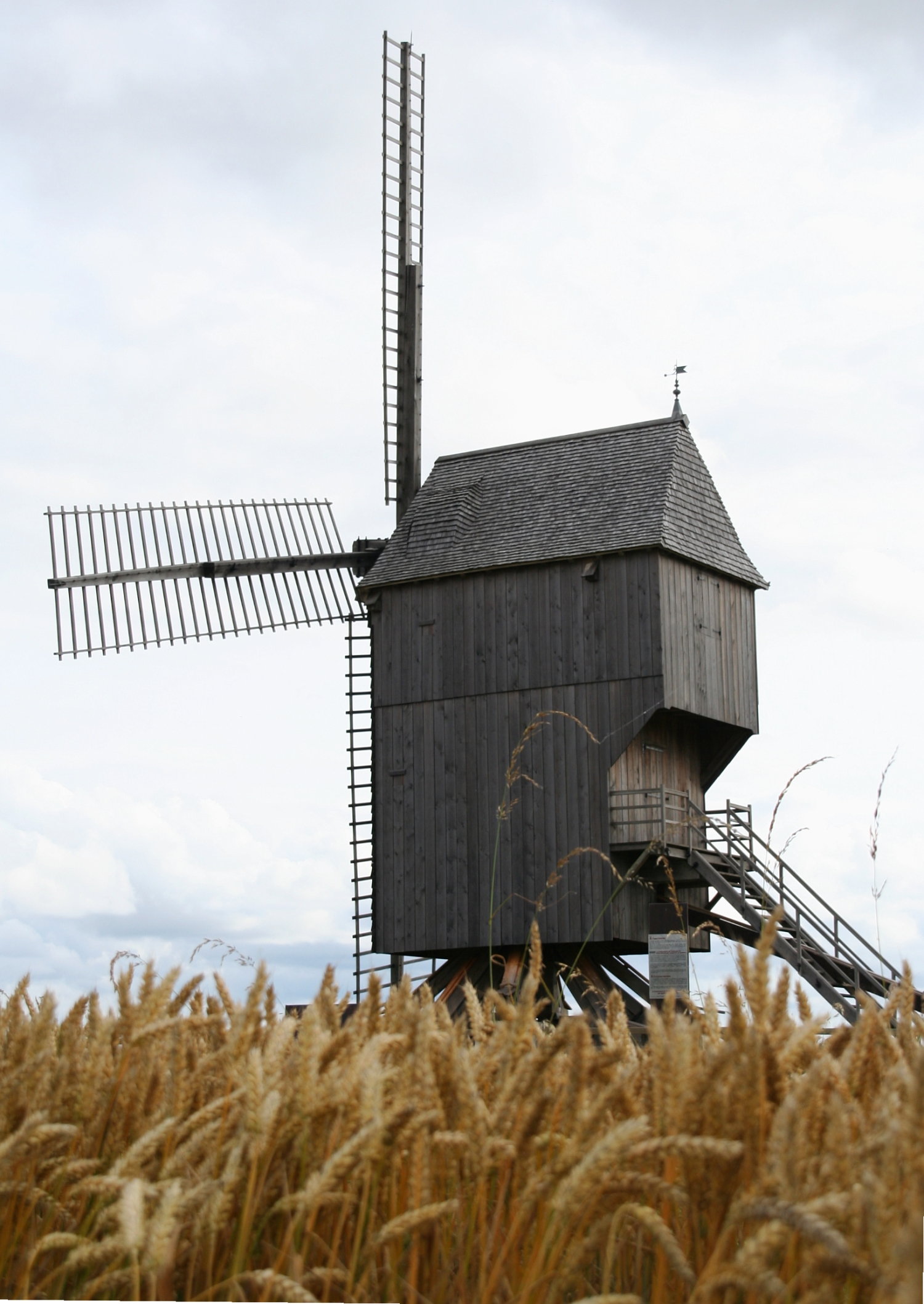 The Valmy windmill, summer 2007